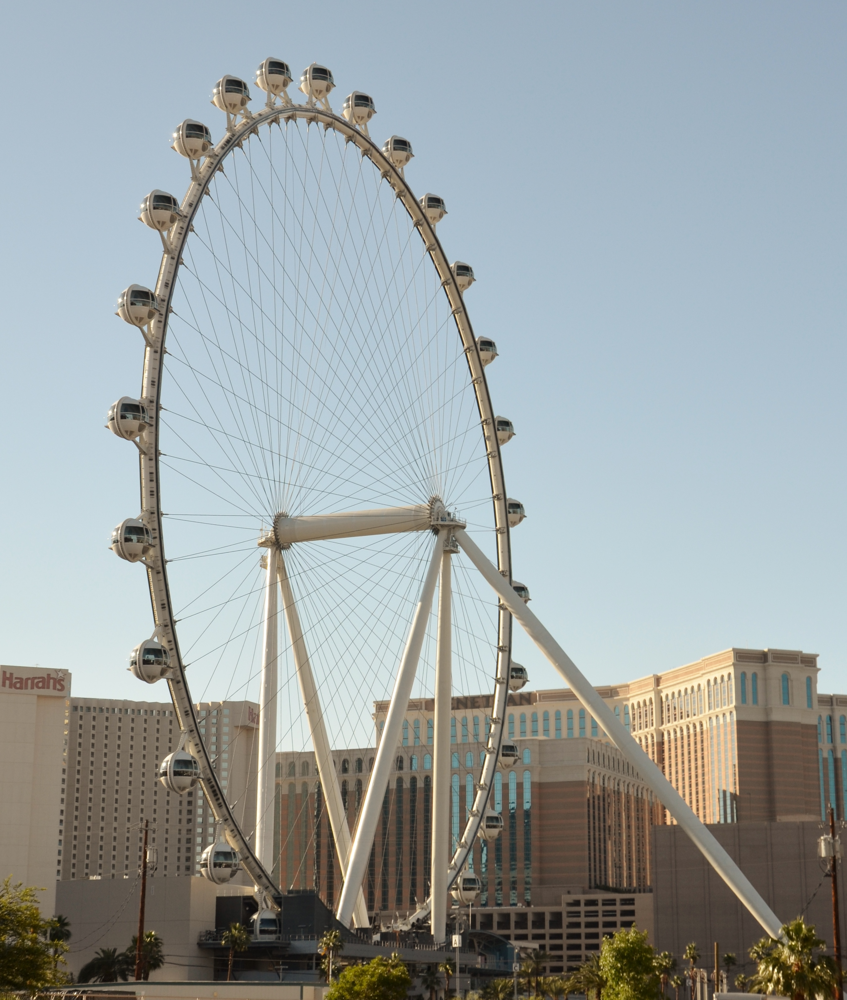 Downtown, Las Vegas, NV, USA